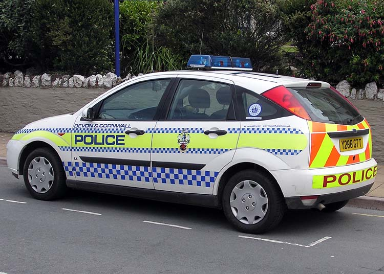 A car of the Devon and Cornwall police, photographed in Ilfracombe, North Devon. Taken by Adrian Pingstone in July 2004 and released to the public domain.